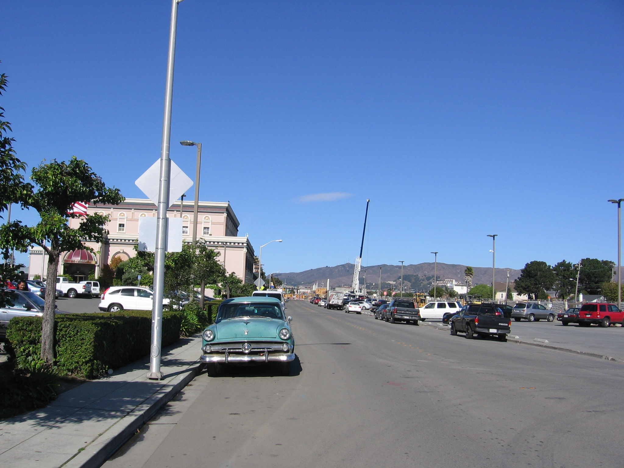 The Artichoke Joe's Casino in San Bruno, California, USA. The Casino is the building on the left side of the street. There is an old model Ford car parked along Huntington Avenue, and a project to elevate the Caltrain tracks over Angus Avenue and San Bruno Avenue is visible on the right.